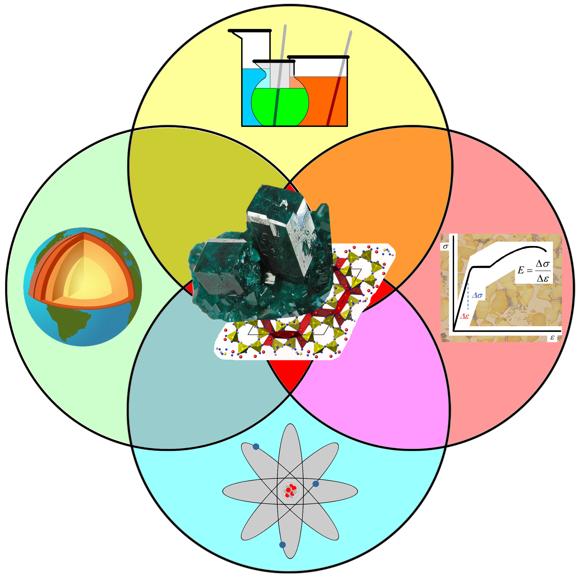 State of mineralogy between chemistry, physics, geology and materials science